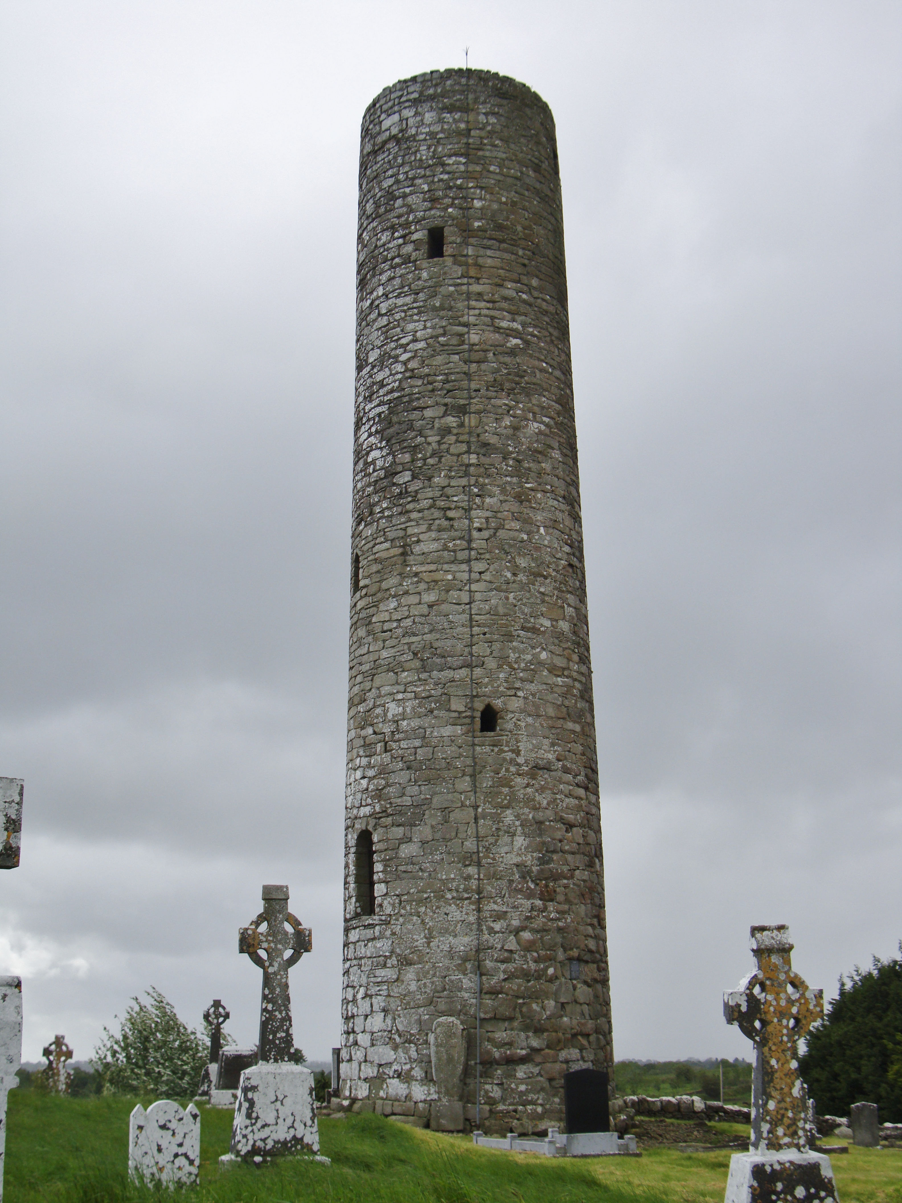 Photograph of Meelick round tower, Co. Mayo, Ireland